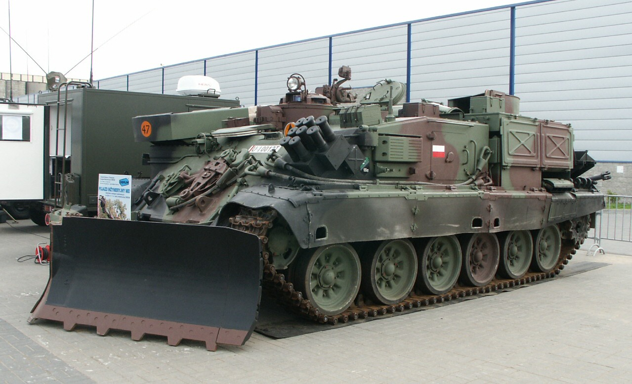 Polish Army's armoured engineering vehicle MID (basing on T-72 tank, produced by Bumar, not built in series so far)